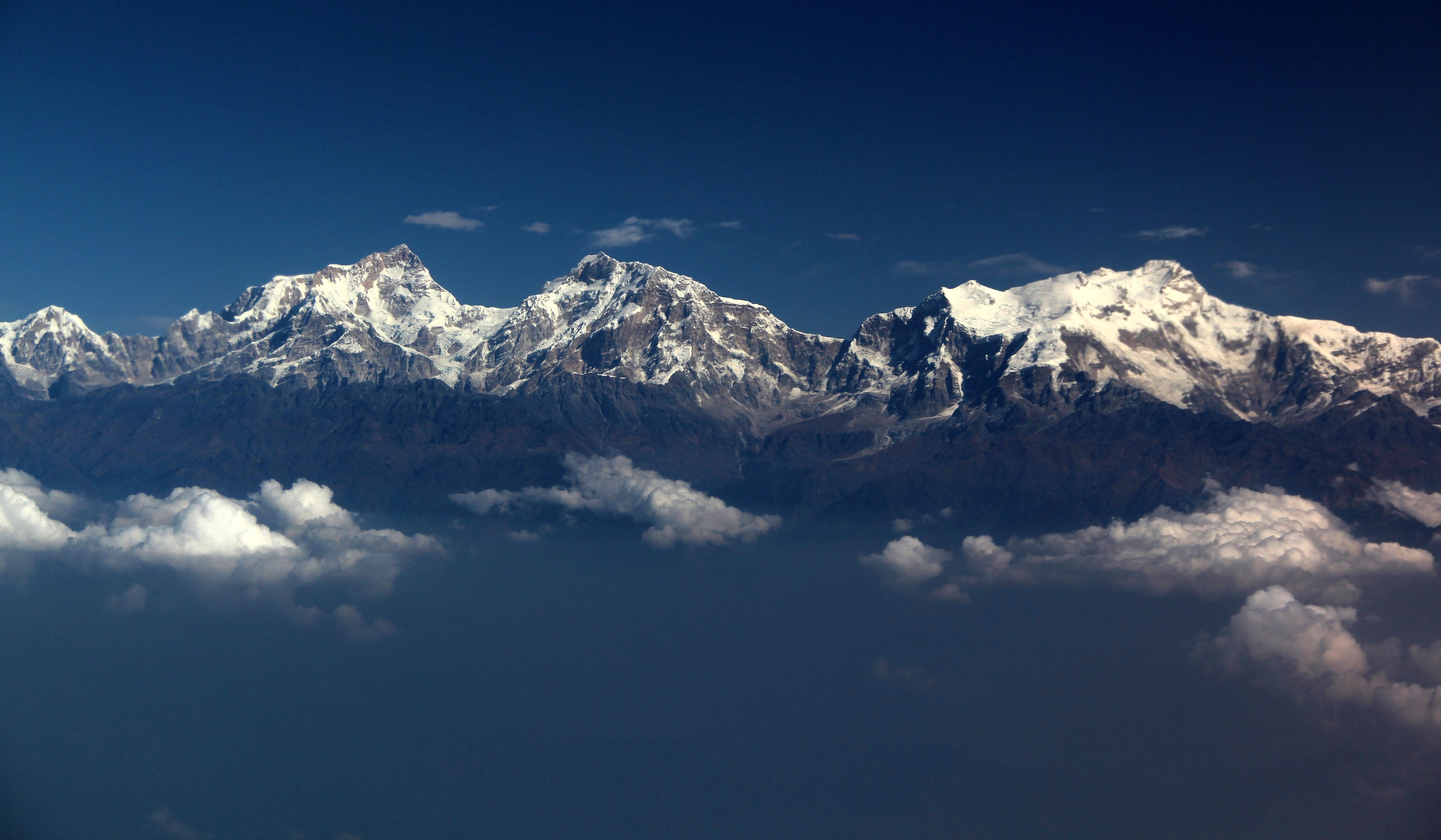 Mt. Manaslu